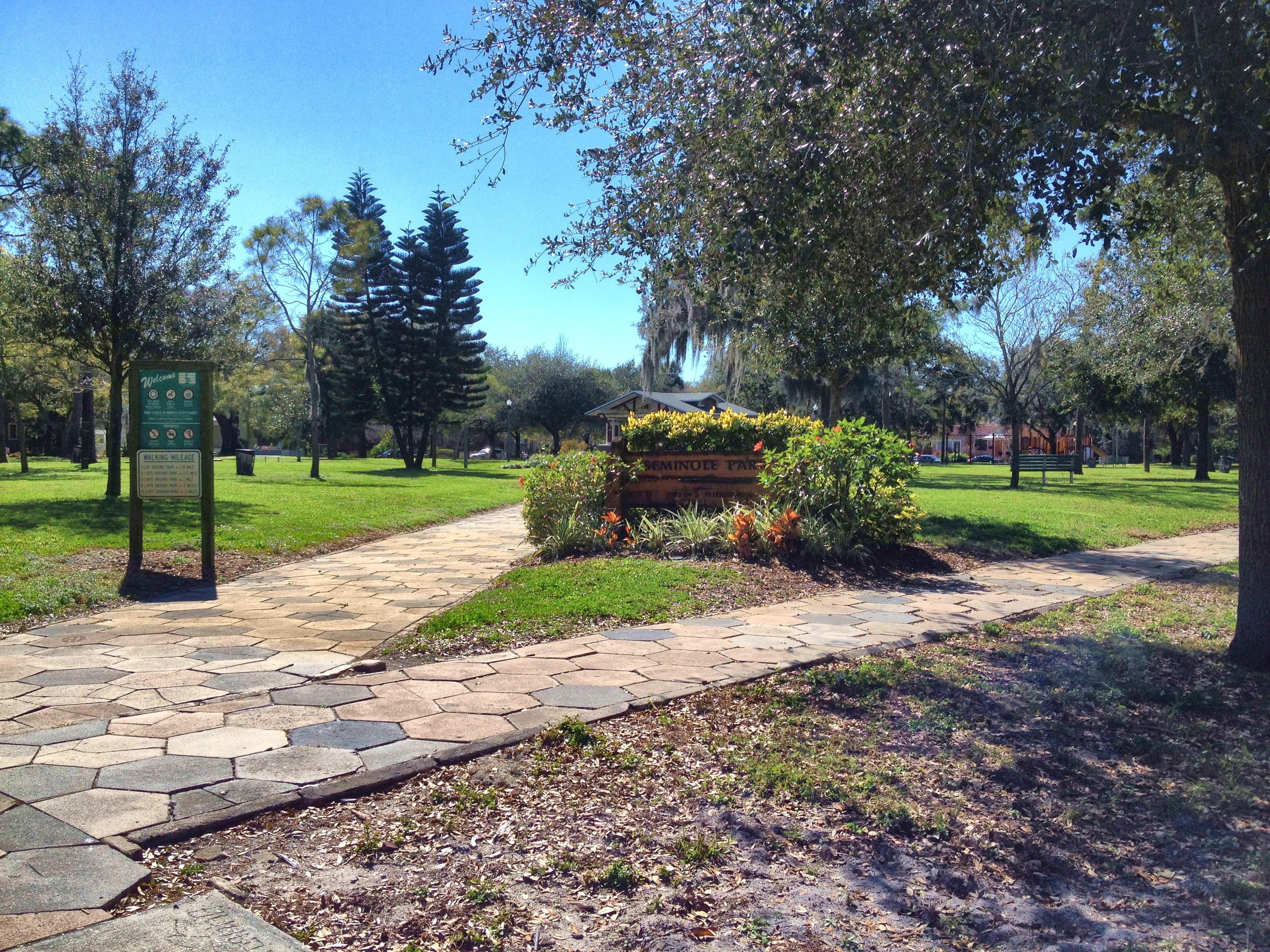 Seminole Park, located in the center of the Kenwood Historic District in St. Petersburg, Florida, taken in February 2014.